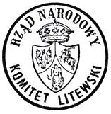 Seal of the Lithuanian Comitee of Polish National Government in January Uprising